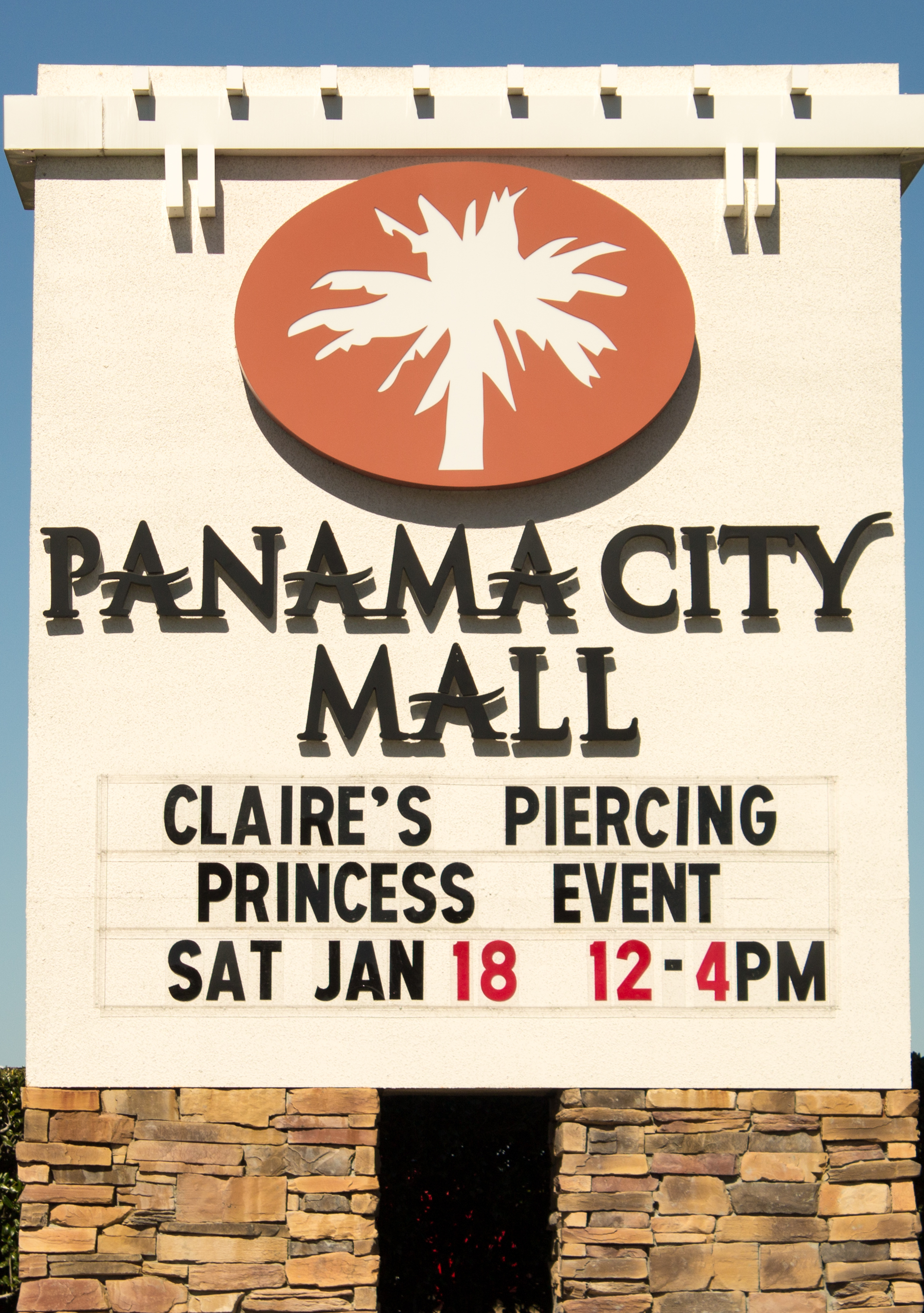 The entrance sign at the Panama City Mall, Panama City, FL on January 19, 2014.